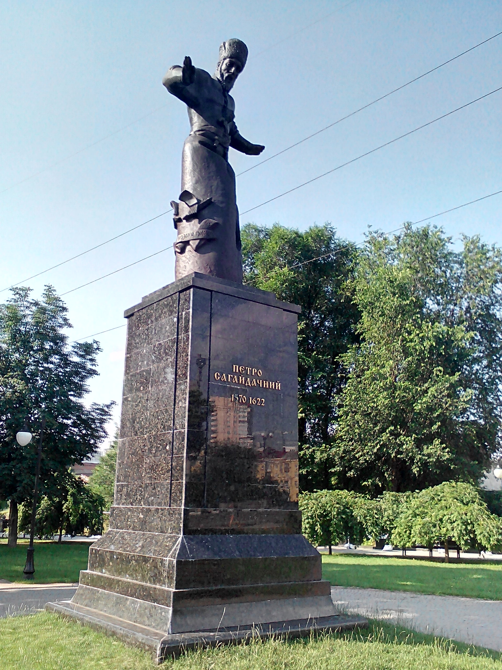 The monument to Hetman Peter Konashevych Sahaidachny , placement in a park on the waterfront gymnasium (Kharkiv, 2015) . By this placement was in . Sevastopol.